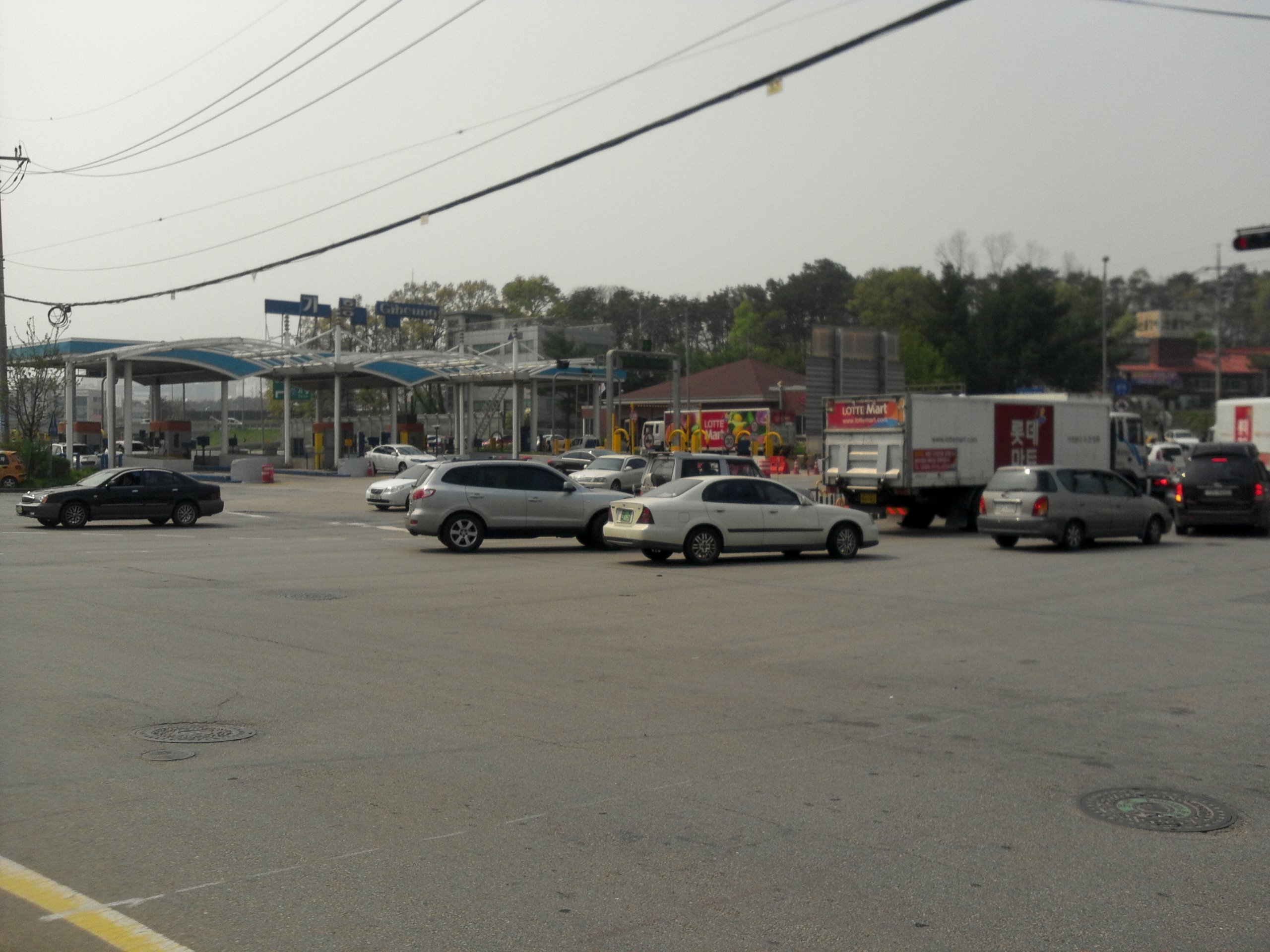 Gyeongbu Expressway Giheung IC - Giheung Tollgate